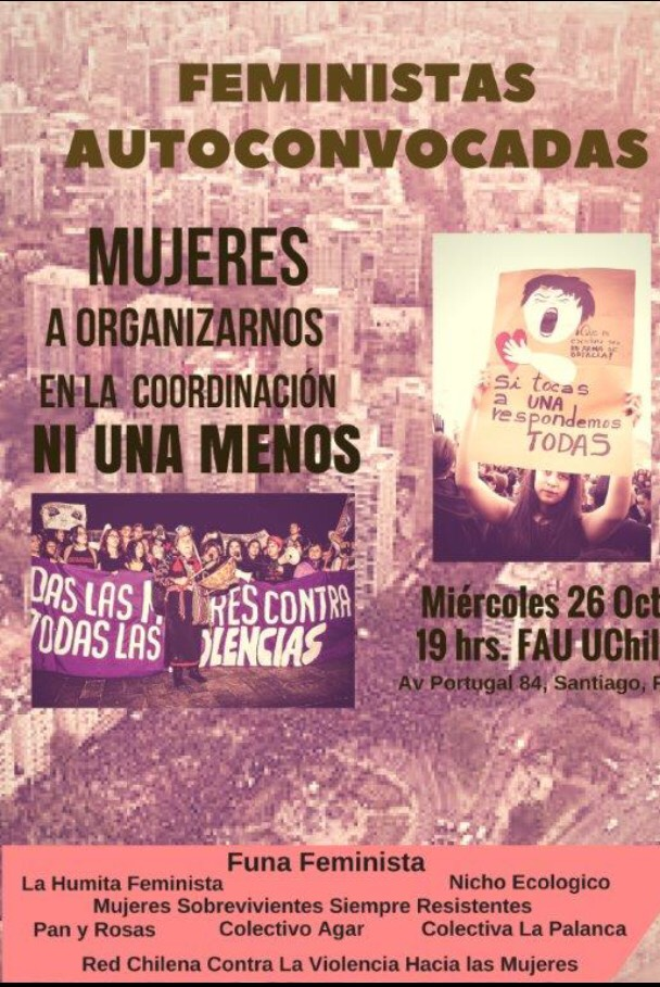 First convocatory to woman asembly in Chile